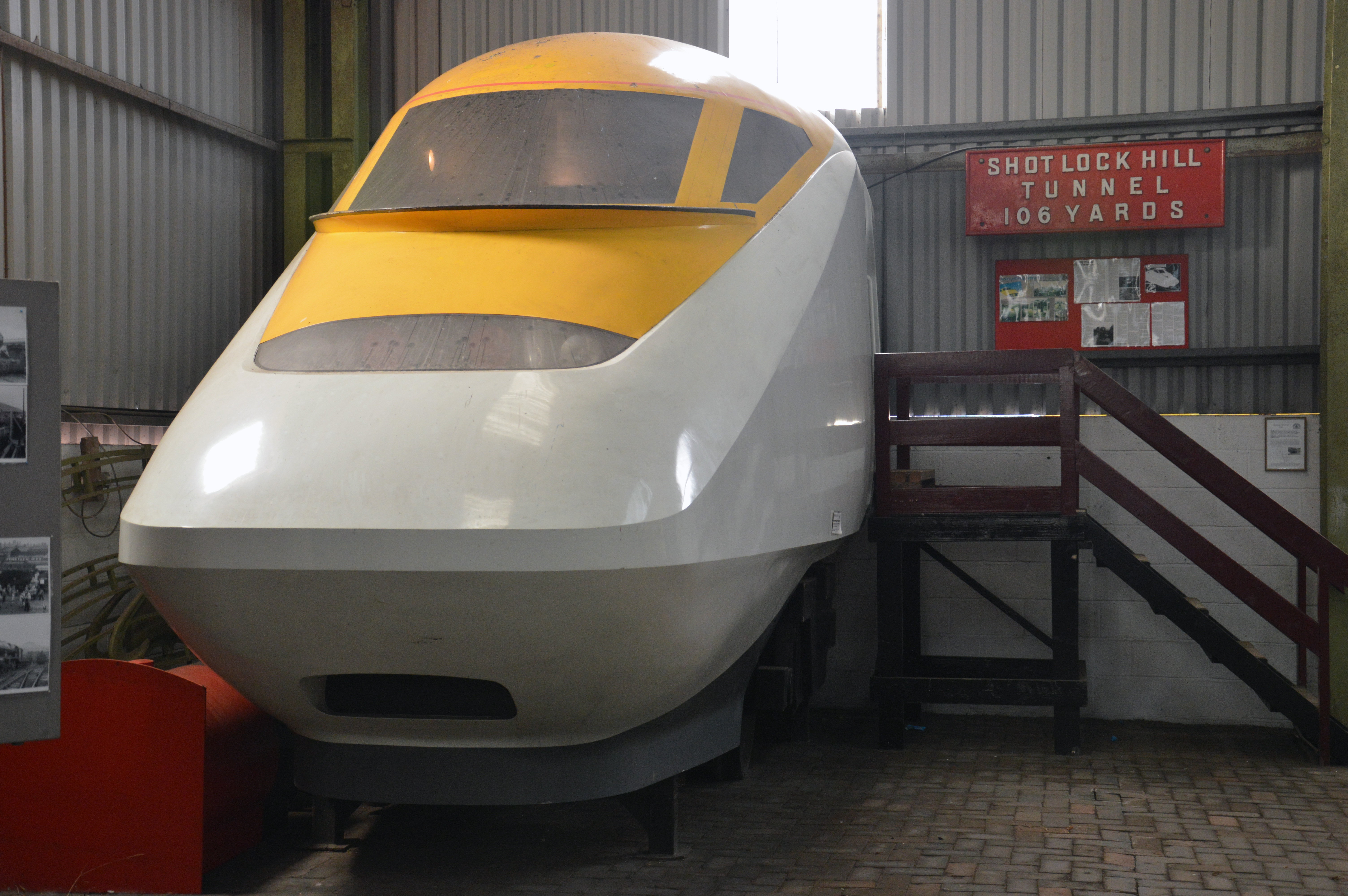 IC250 - Midland Railway Centre